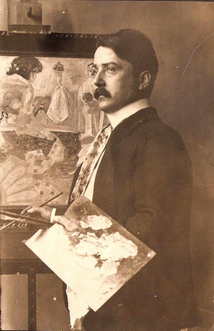 Hanns Diehl in his studio at his easel